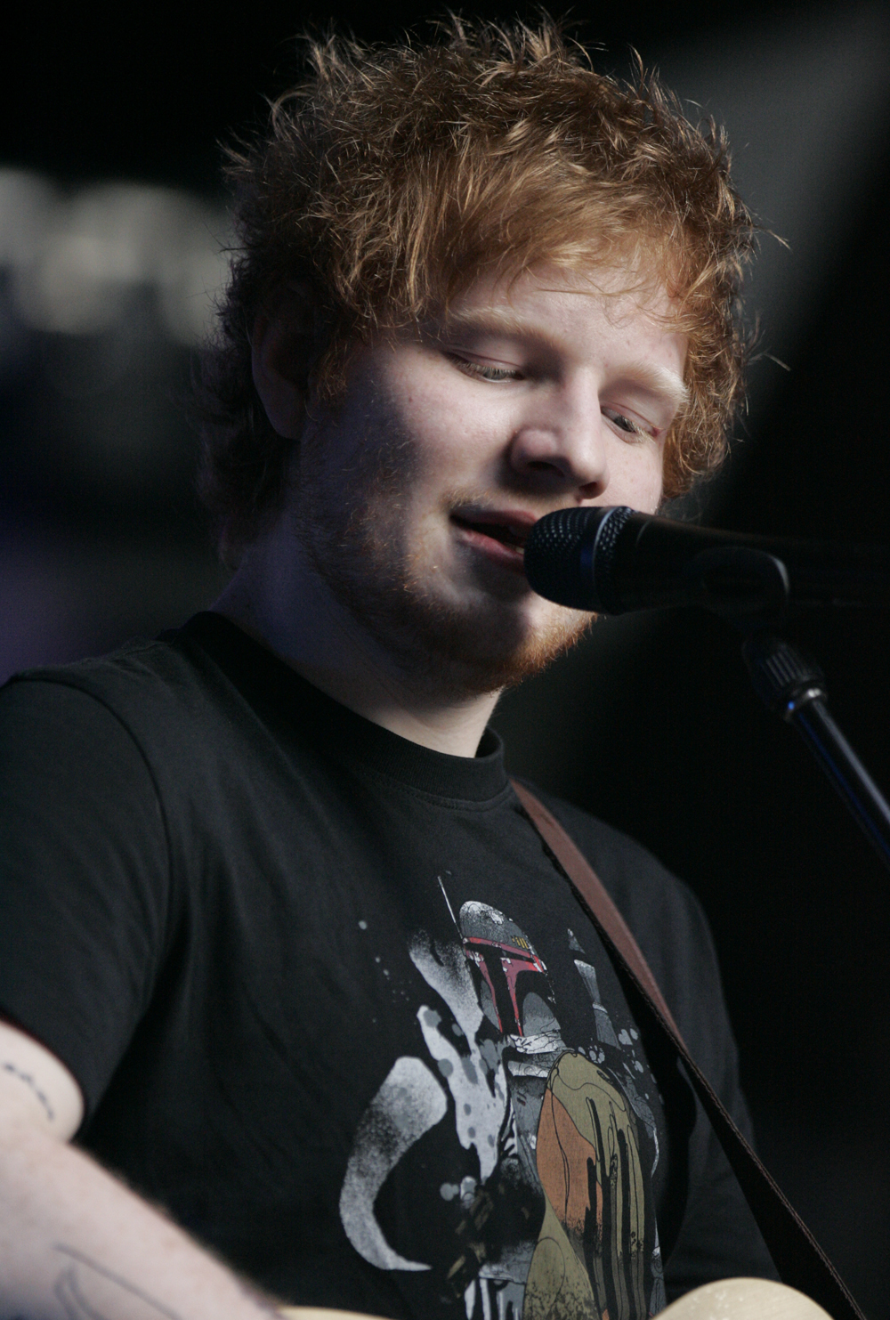 Ed Sheeran